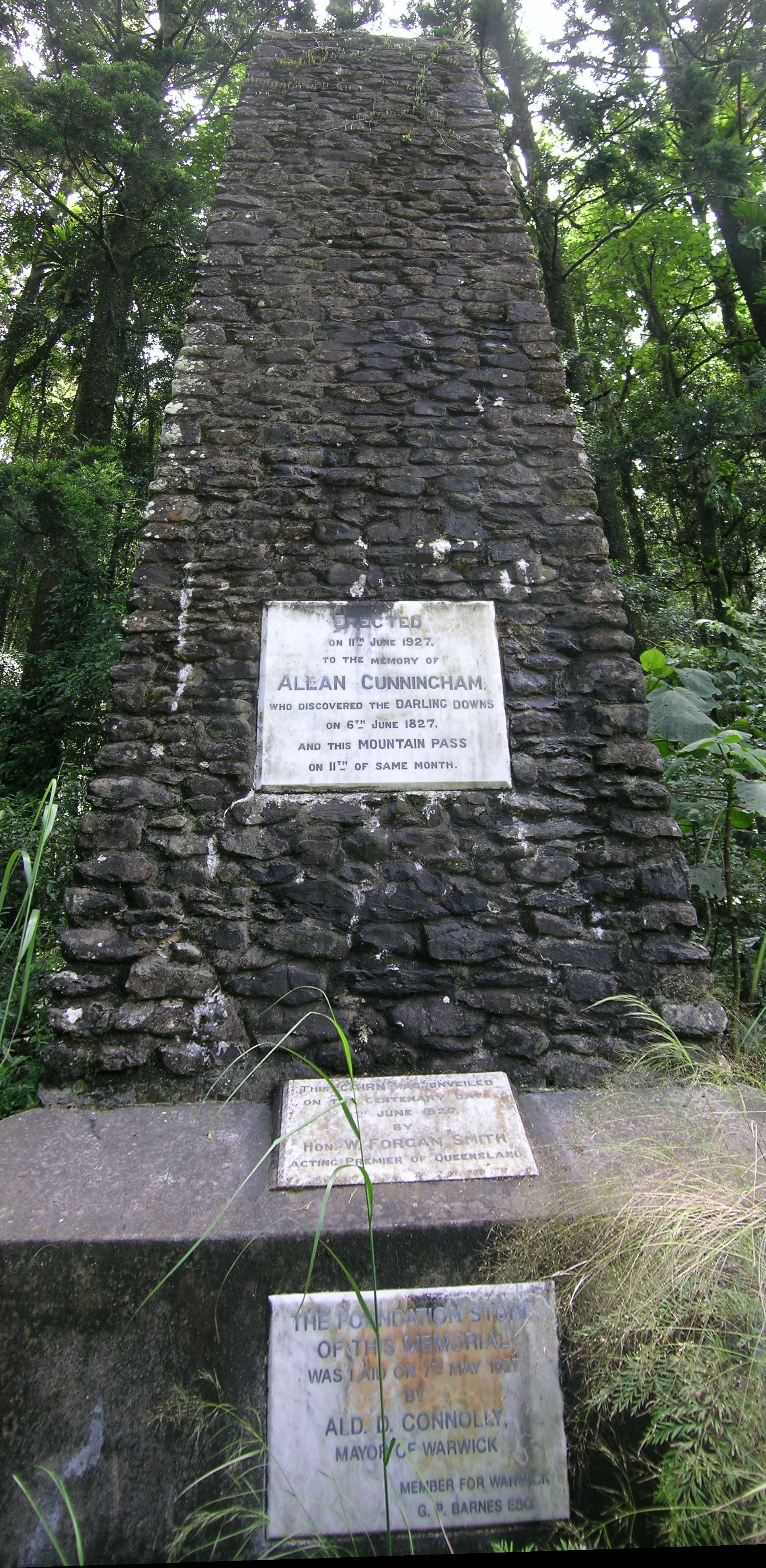 Memorial to Allan Cunningham's exploration of the Darling Downs and Cunningham's Gap, Cunningham Highway, QLD. The Advertiser (Adelaide), 13th June 1927.